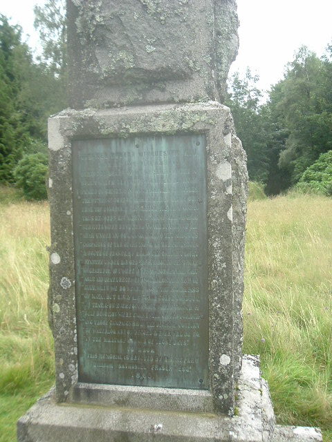 Tornaveen Obelisk Brass plaque of dedication at base of the obelisk.